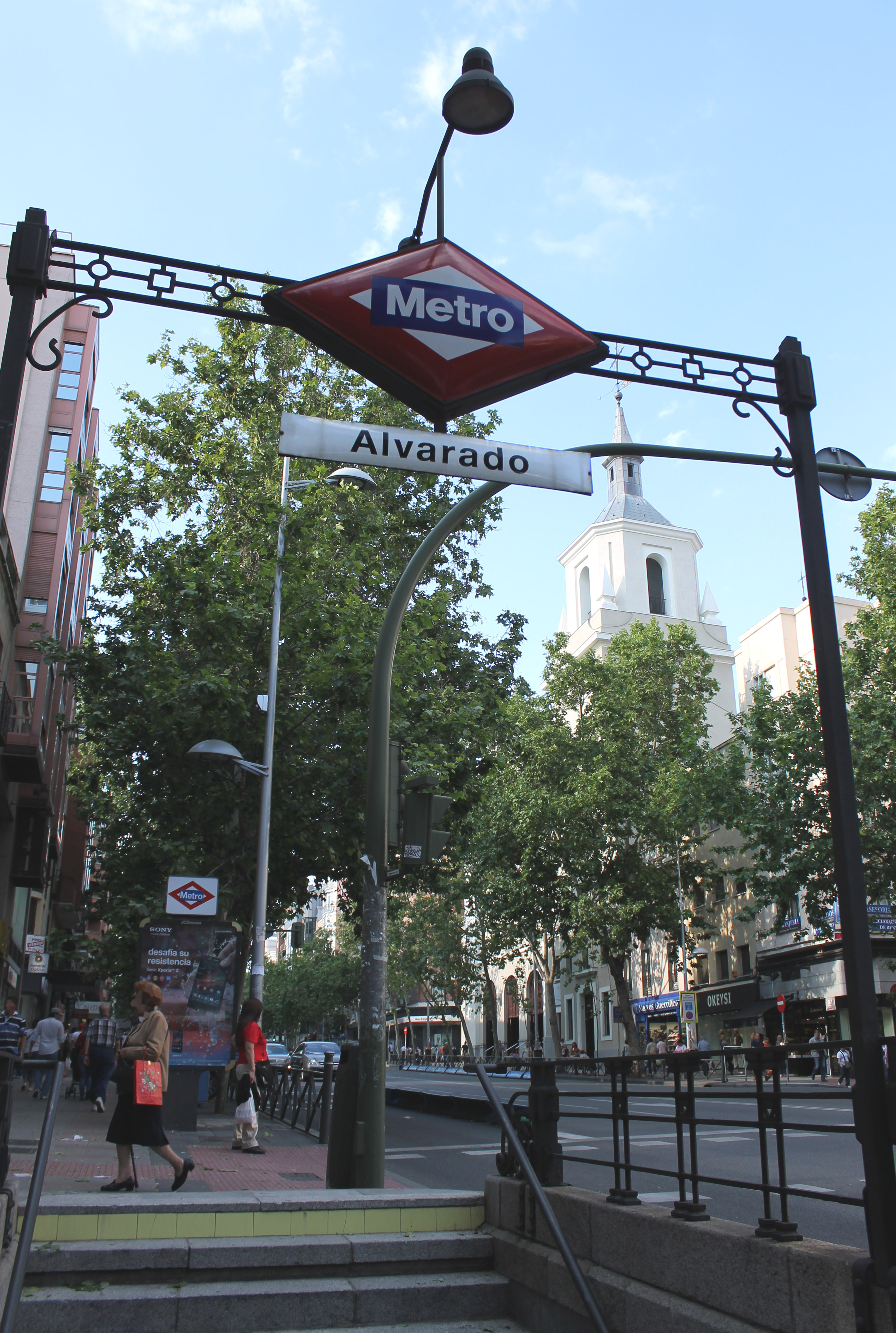 Entrance of Alvarado metro station in Madrid (Spain), at 135 Calle de Bravo Murillo (street) in Tetuán district.